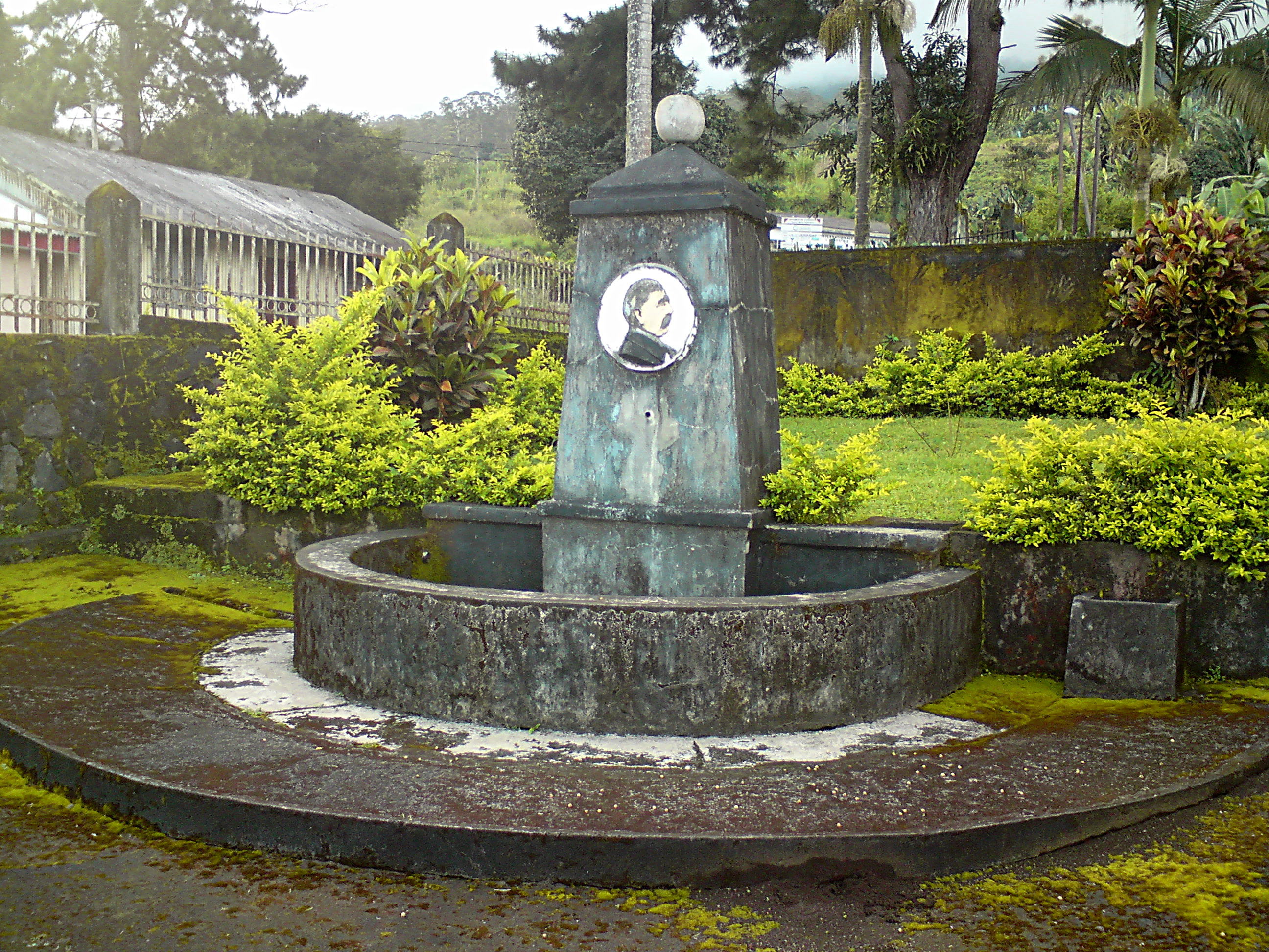 Bismarck-Fountain in Buea, build 1899